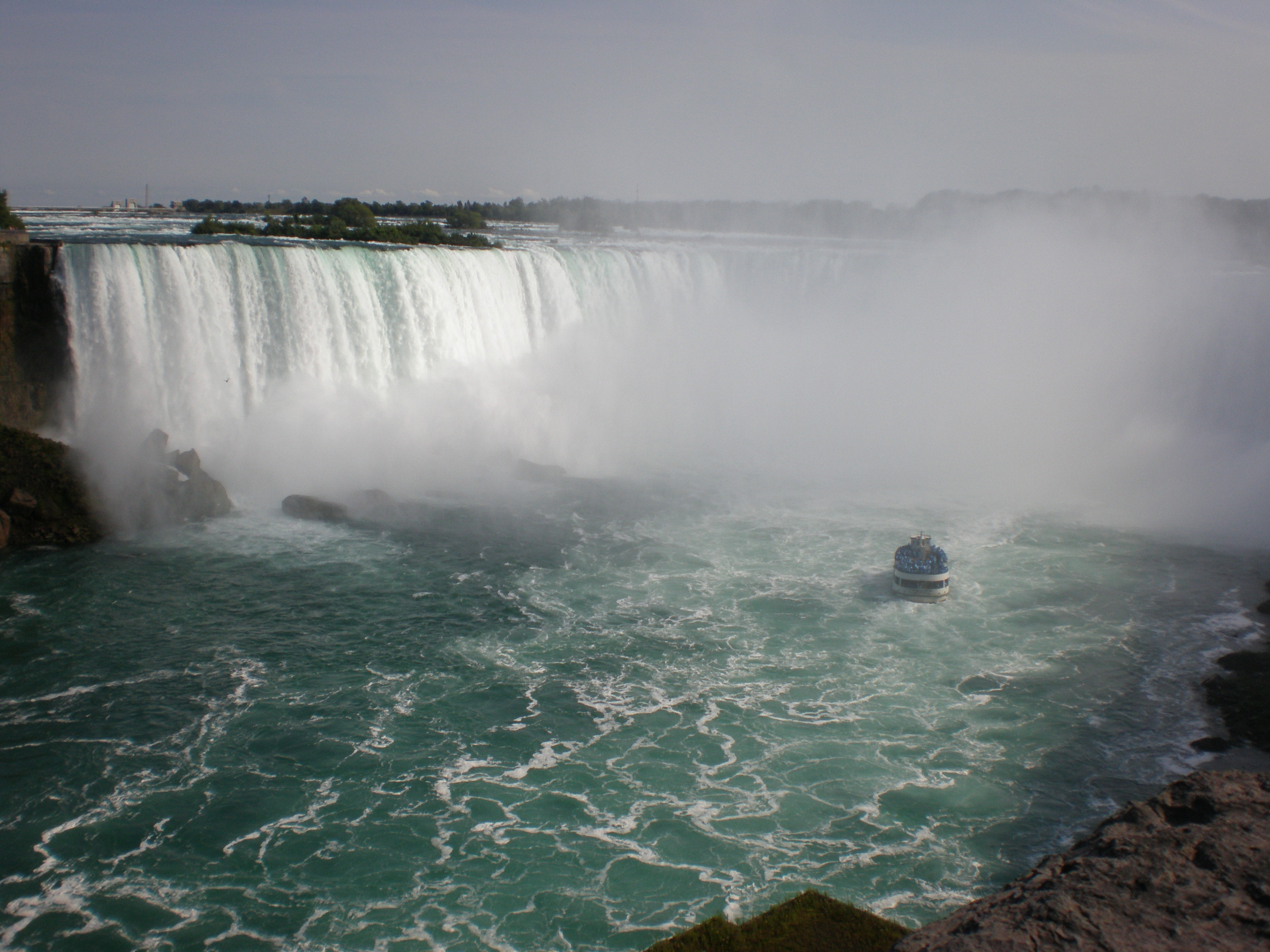 Horseshoe Falls view from Canadian side